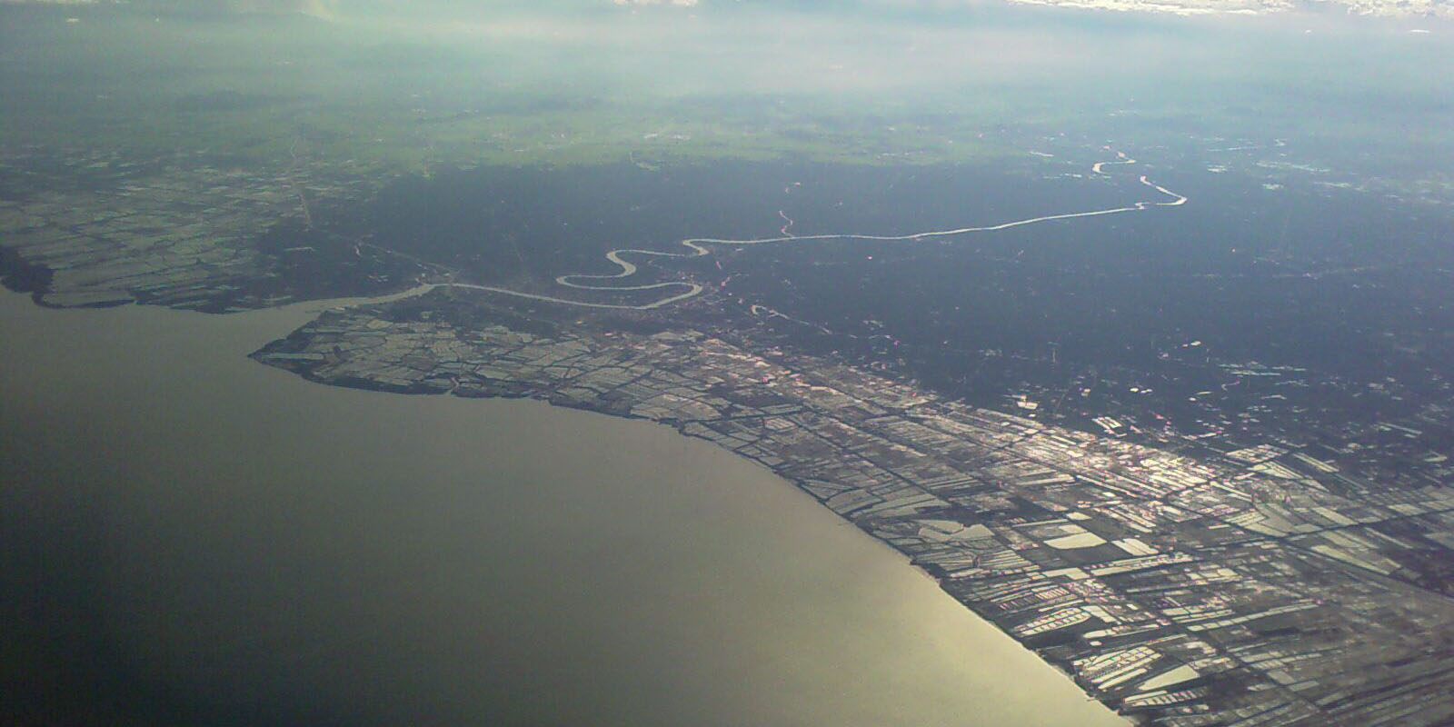 Aerial photograph of the mouth of the Mae Klong in Samut Songkhram Province, Thailand. Sunlight reflected in water surfaces show the numerous coastal prawn farms and salt works in the area.